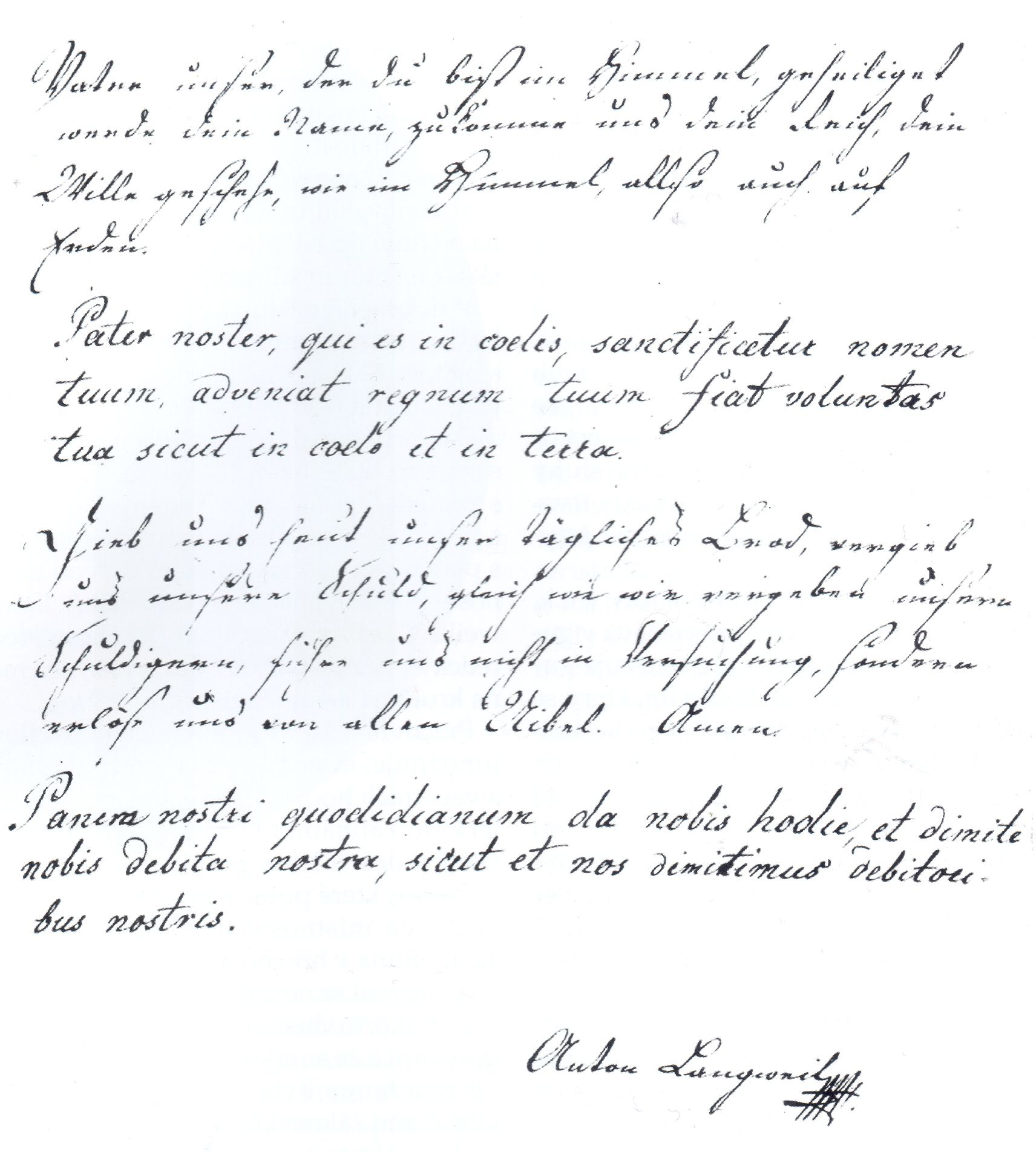 Writing exam of Antonín Langweil